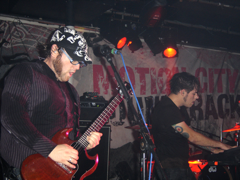 Motion City Soundtrack